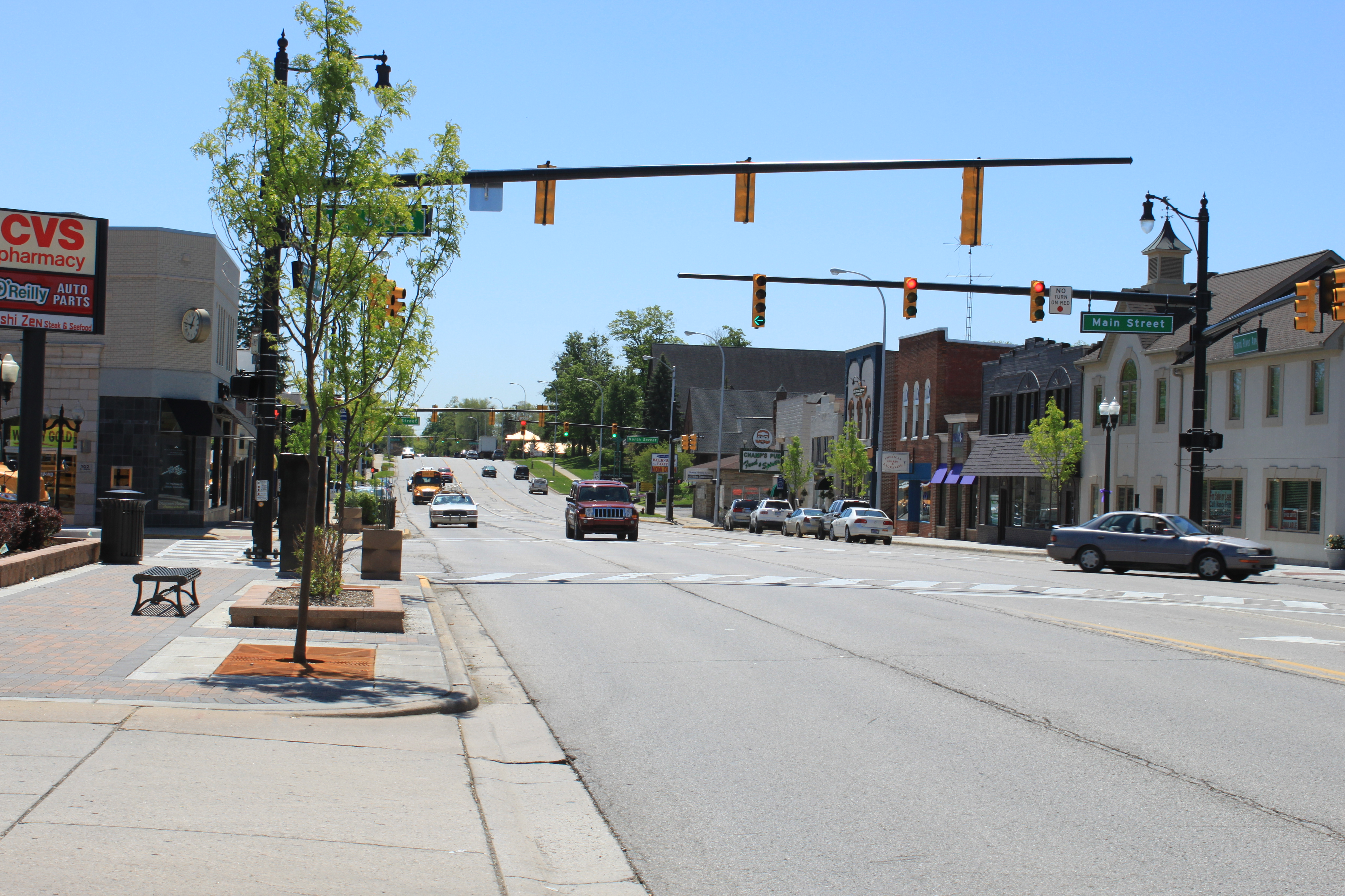 Downtown Brighton Michigan, Grand River Ave.